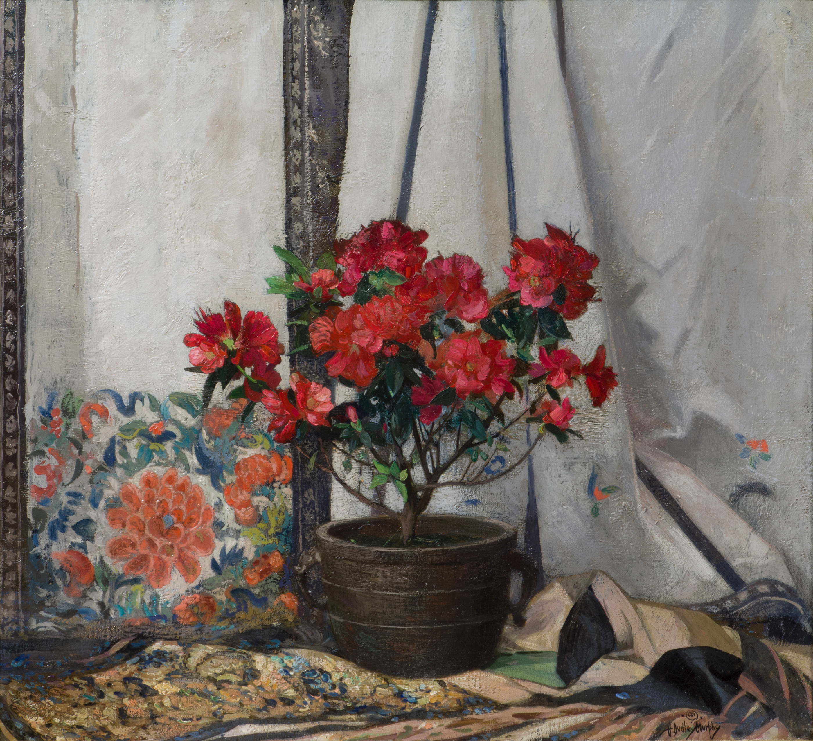 The Azalea by Hermann Dudley Murphy, oil on canvas, 22 x 24 inches, circa 1927